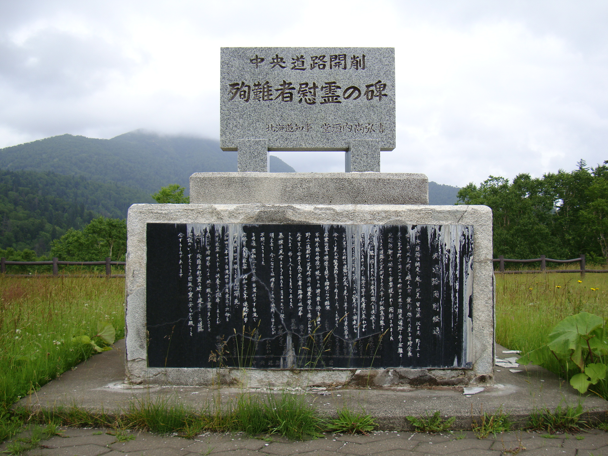 "Hokkaidō Chūō Dōro" construction victim to duty memorial service monument. Route 333, Kitami mountain pass.